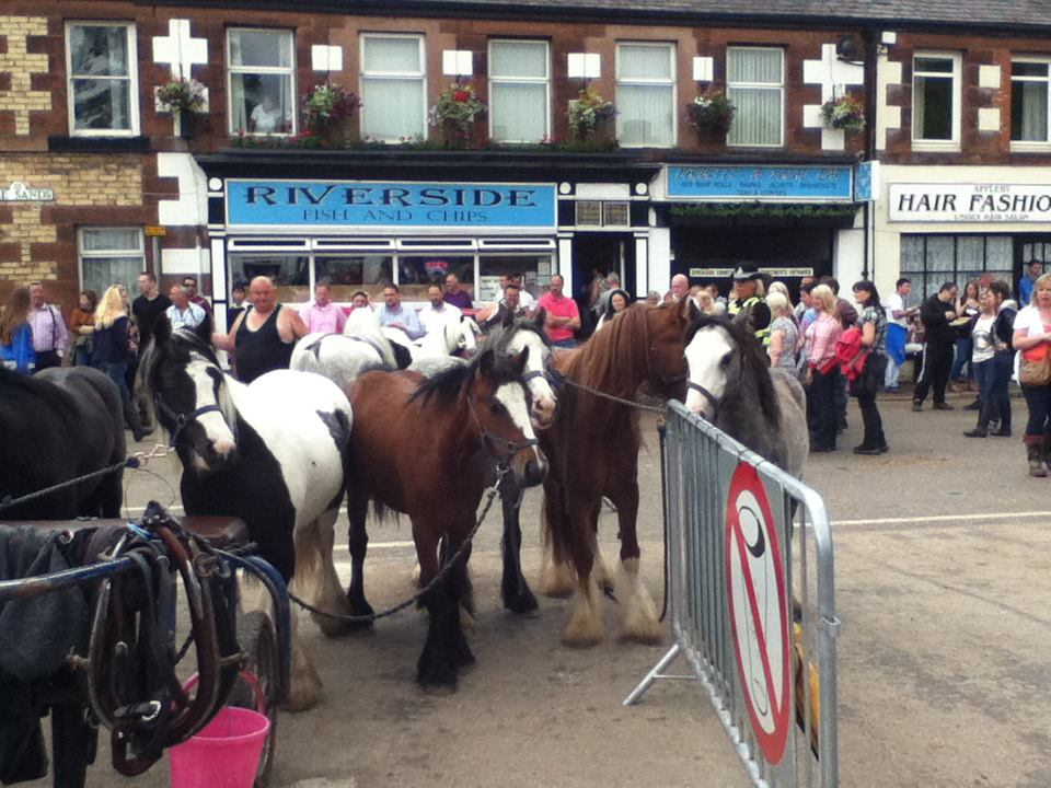 Romanichals at Appleby Fair